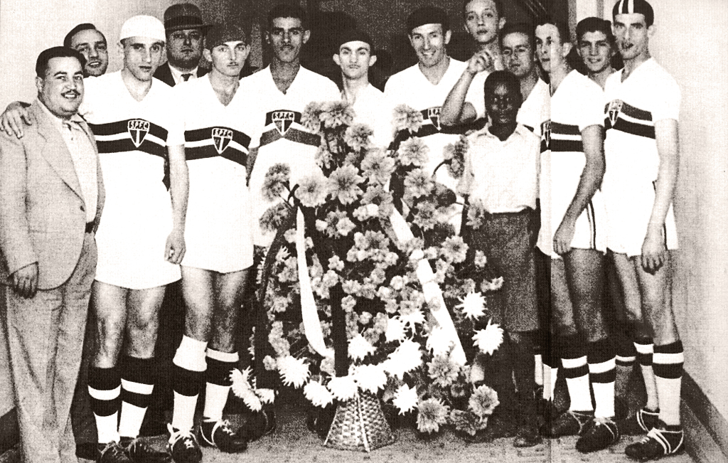 squad of São Paulo Futebol Clube, runner-up of paulista championship of 1938. Not in sequence: Pedrosa, Agostinho, Iracino, Fiorotti, Damasco, Felipelli, Mendes, Armandinho, Eliseu, Araken and Paulo.